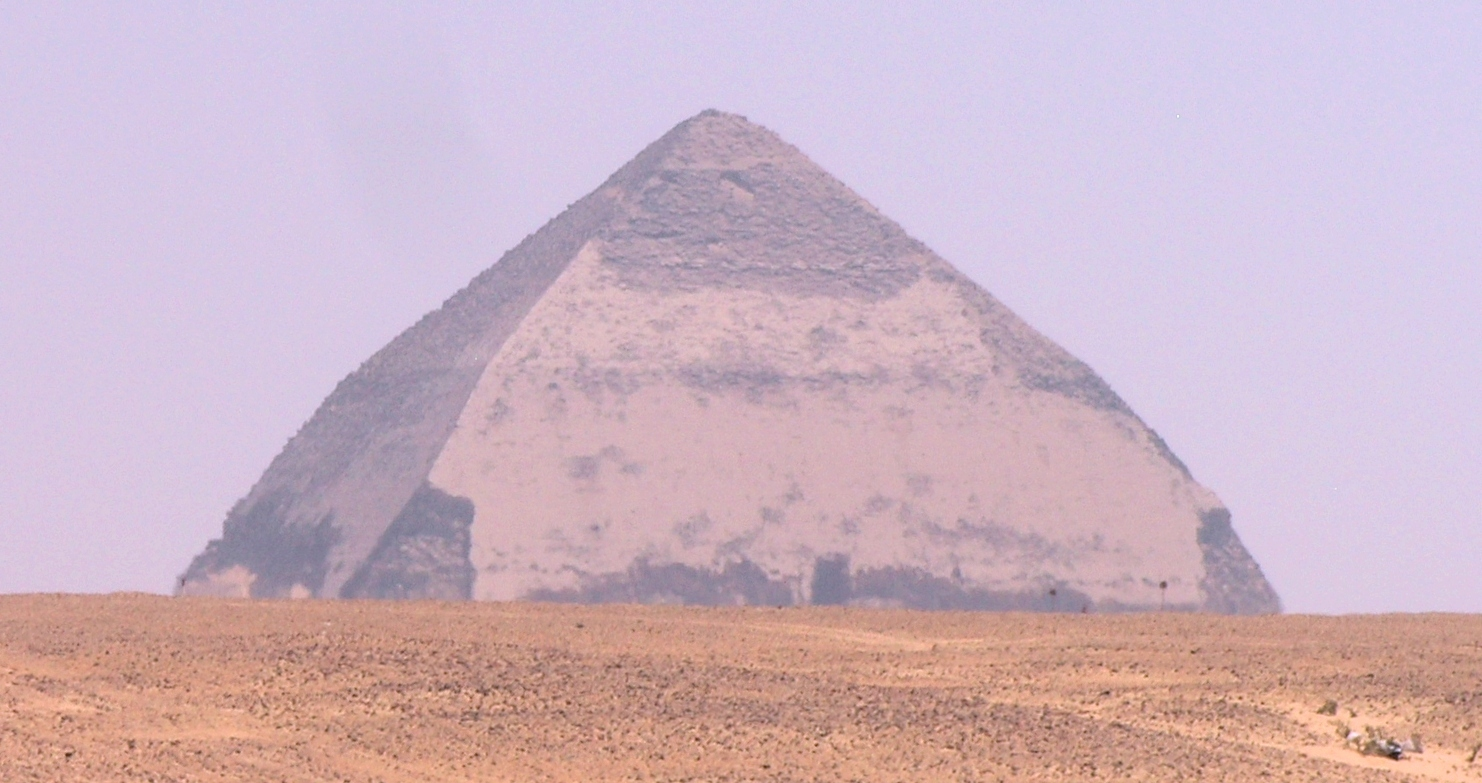 Dahshur - Bent Pyramid - crop